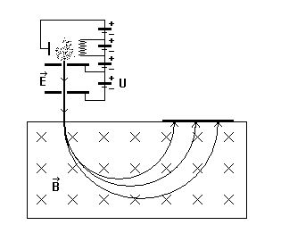 The principle of a mass spectrometer.